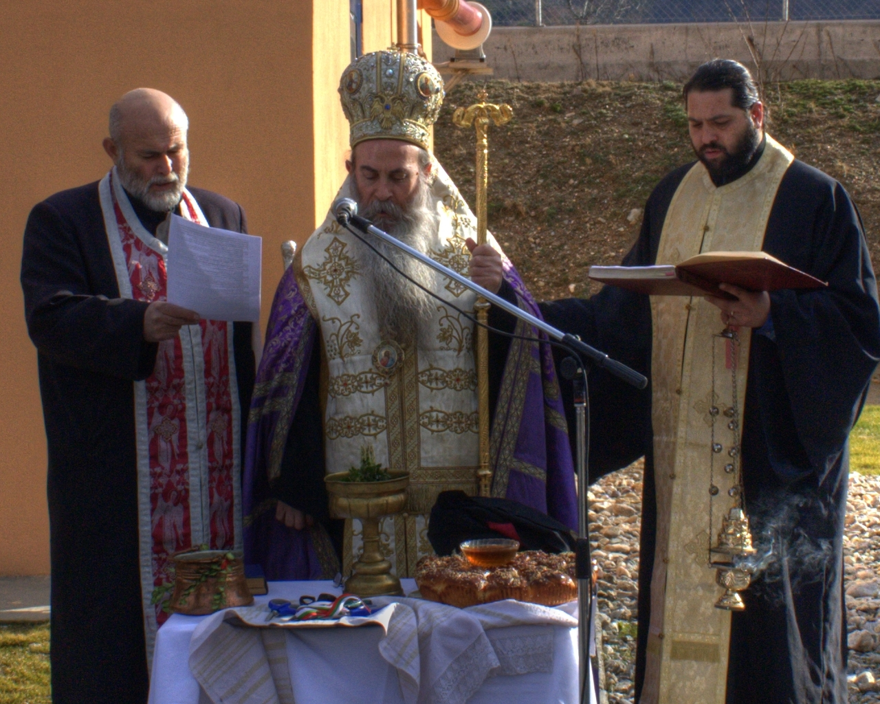 Mitropolit Natanail of Nevrokop (today Gotse Delchev, Bulgaria) during the inauguration ceremony of the Waste Water Treatment Plant of Blagoevgrad...